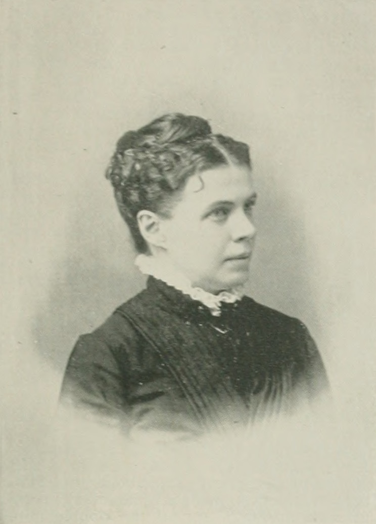 image from